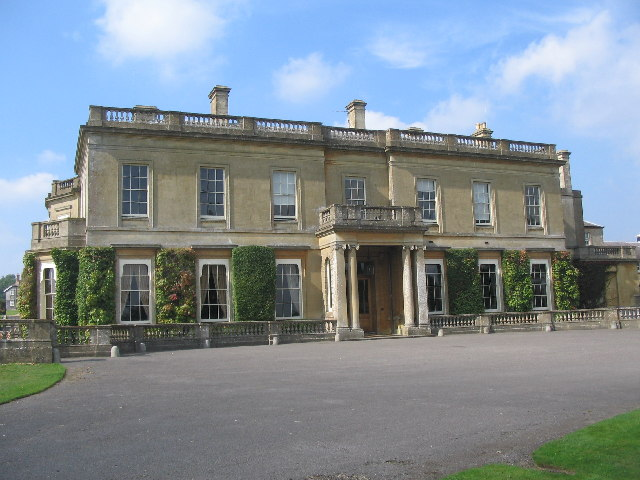 Manor house at Hartham Park, 1795, near Corsham in Wiltshire Designed by James Wyatt Now part of a country club and conference centre